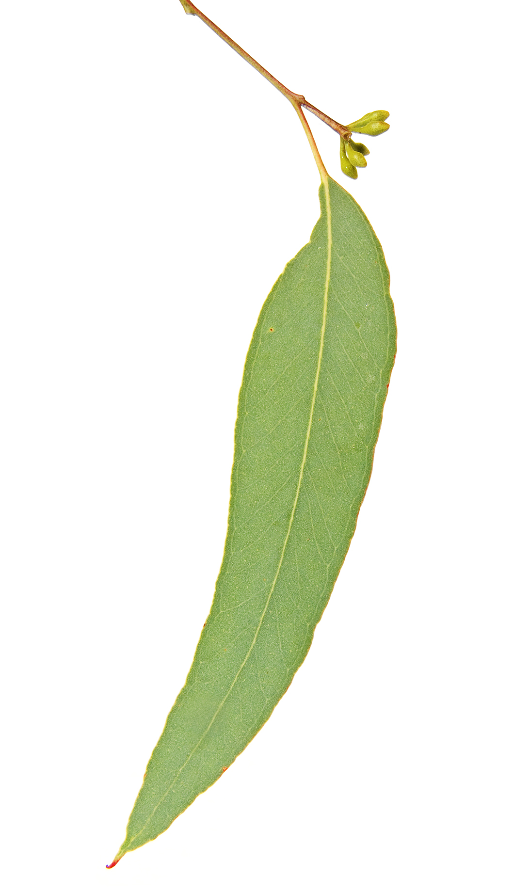 Leaf and flower bud cluster of the Australian Eucalyptus angophoroides, Apple-topped Box